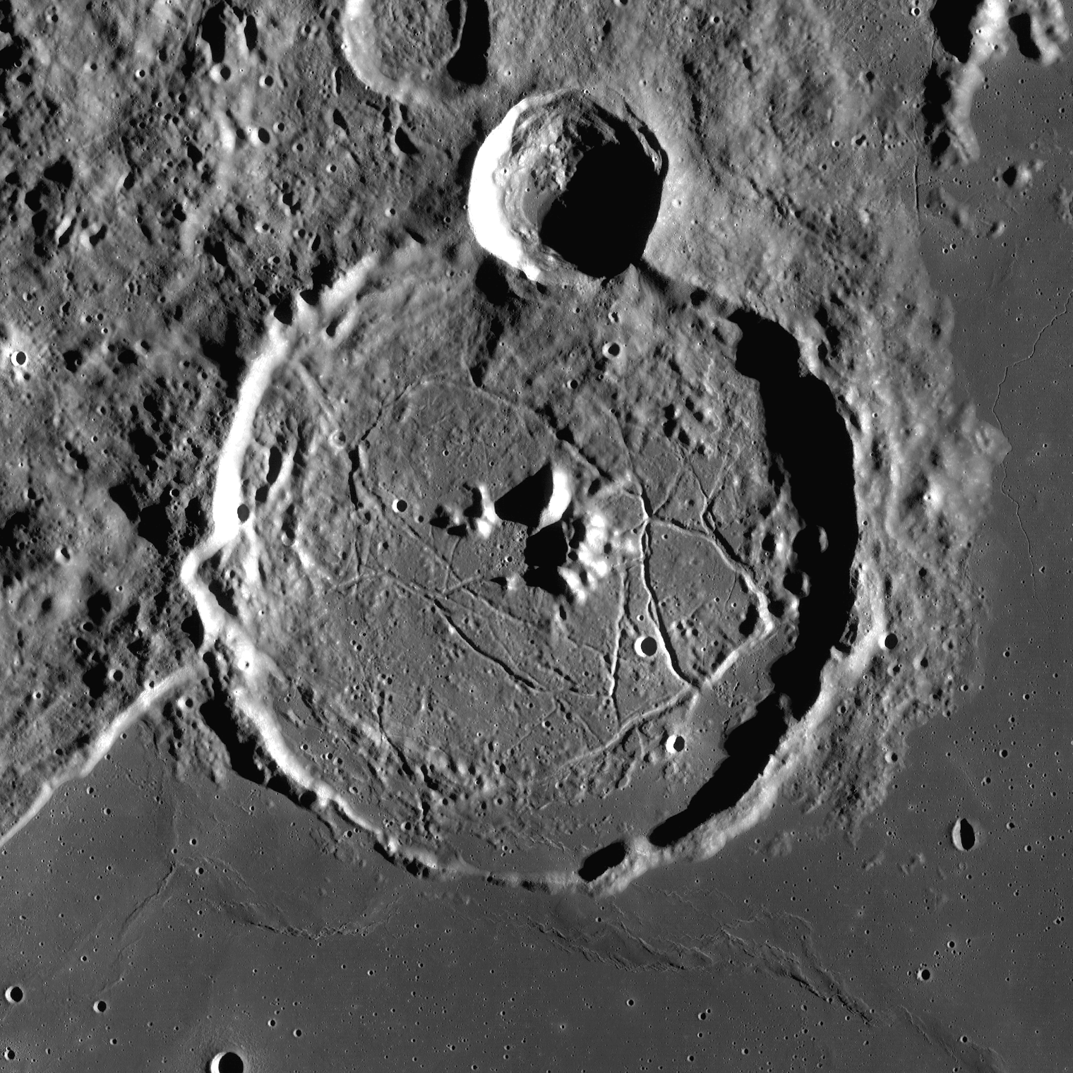 Crater Gassendi (diam. 110 km) on the Moon, on the border of Mare Humorum. Coordinates of center of the crater are 17.5°S, 40.0°W. Mosaic of photos by Lunar Reconnaissance Orbiter, made with Wide Angle Camera. Width of the photo is 180 km, north is up.